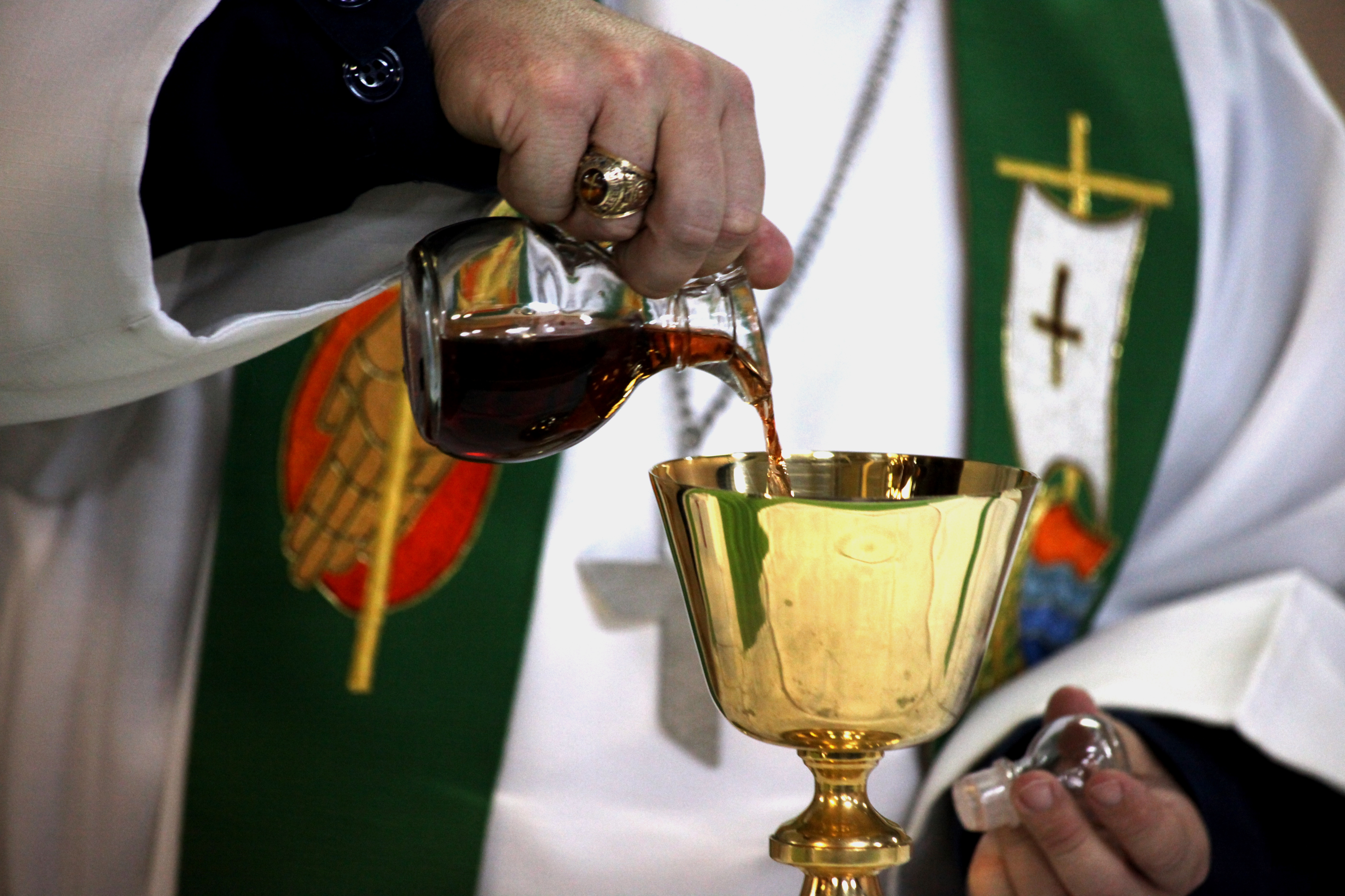 MEDITERRANEAN SEA (Sept. 12, 2010) Lt. Cmdr. Daniel Berteau, command chaplain for the Kearsarge Amphibious Ready Group, pours wine in preparation for communion during a Sunday church service aboard the amphibious assault ship USS Kearsarge (LHD 3). The Kearsarge ARG is supporting Pakistan flood relief efforts. (U.S. Marine Corps photo by Lance Cpl. Tammy Hineline/Released)